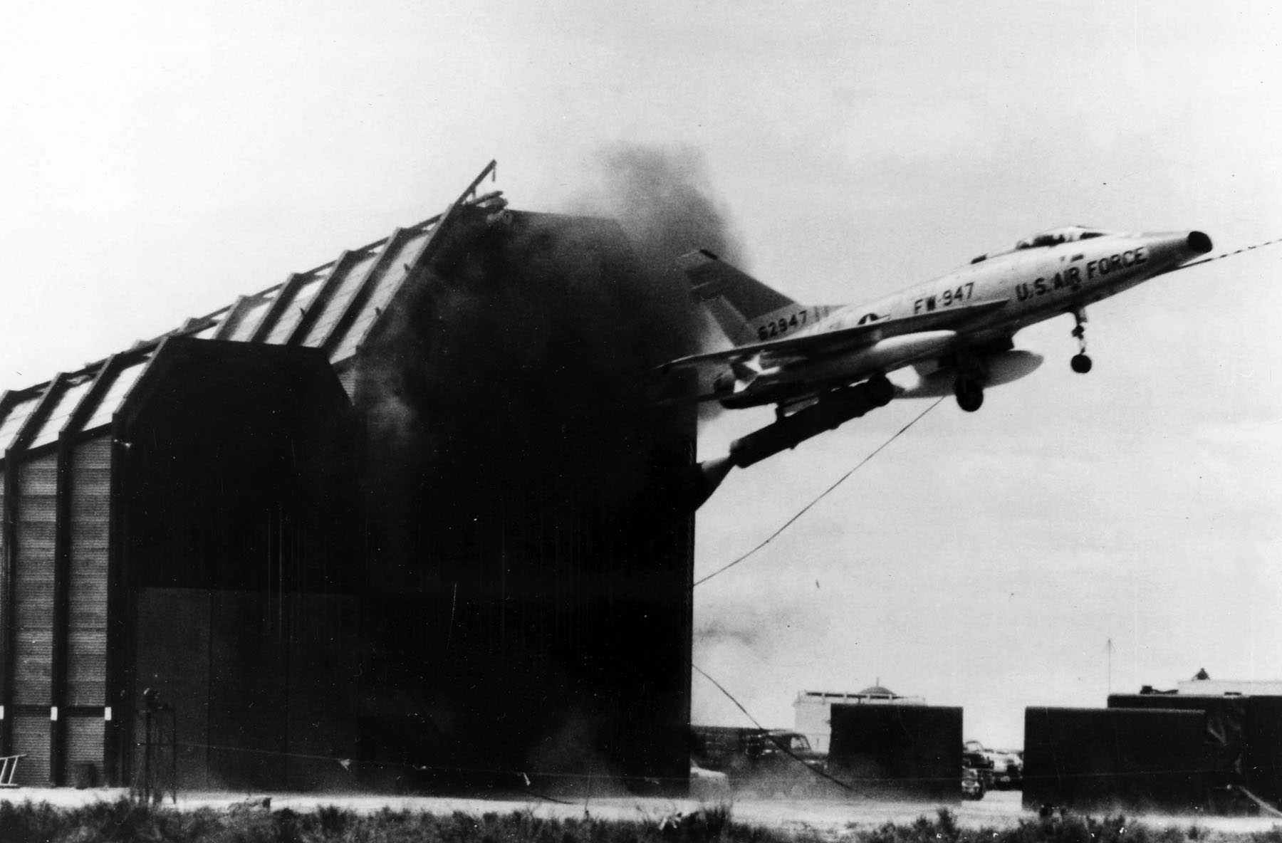 Zero-Length Launch of F-100D-60-NA (S/N 56-2947) with "special weapon shape" under the left wing.